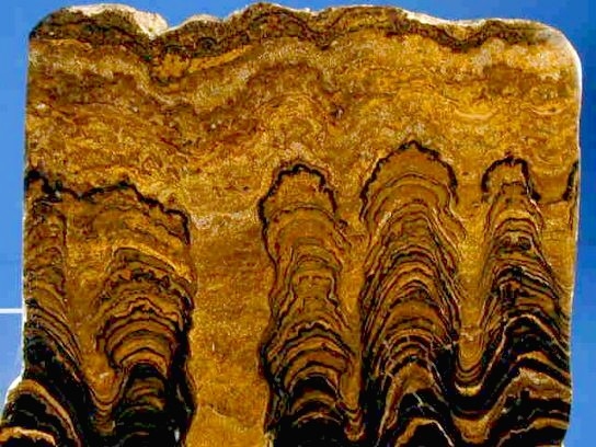 Original caption: "Stromatolites from Eastern Andies South of Cochabamba, District of Cochabamba, Bolivia, South America. I am the author." note:these stromatolites date from the Proterozoic (2.3 bilion years ago).